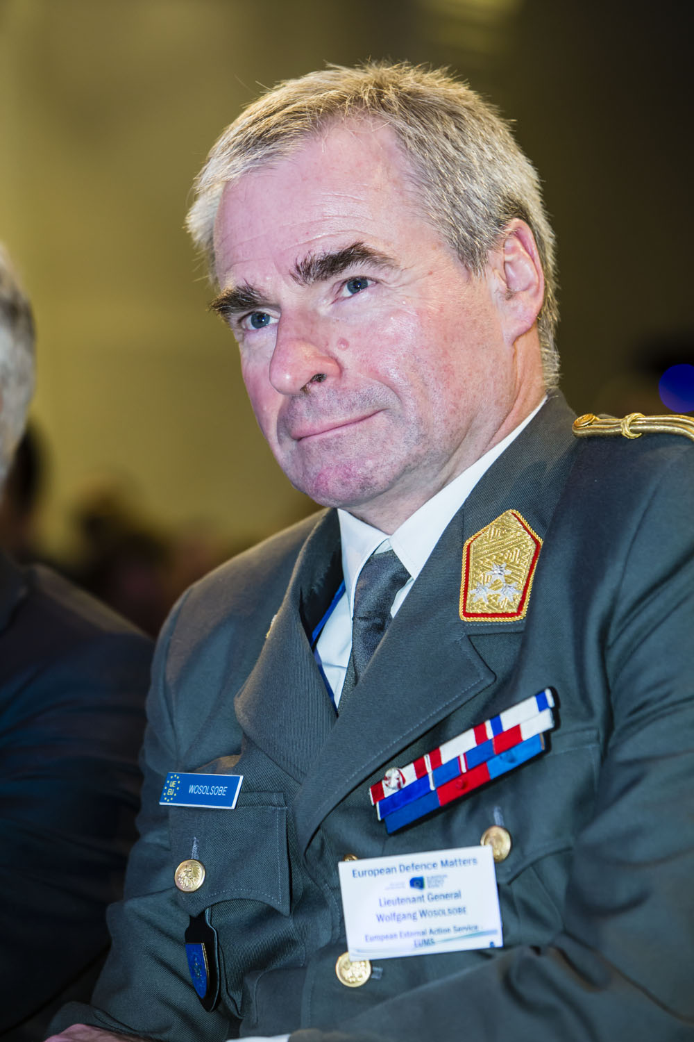 Wolfgang Wosolsobe at the 2014 EDA European Defence Matters conference held at Albert Hall in Brussels.